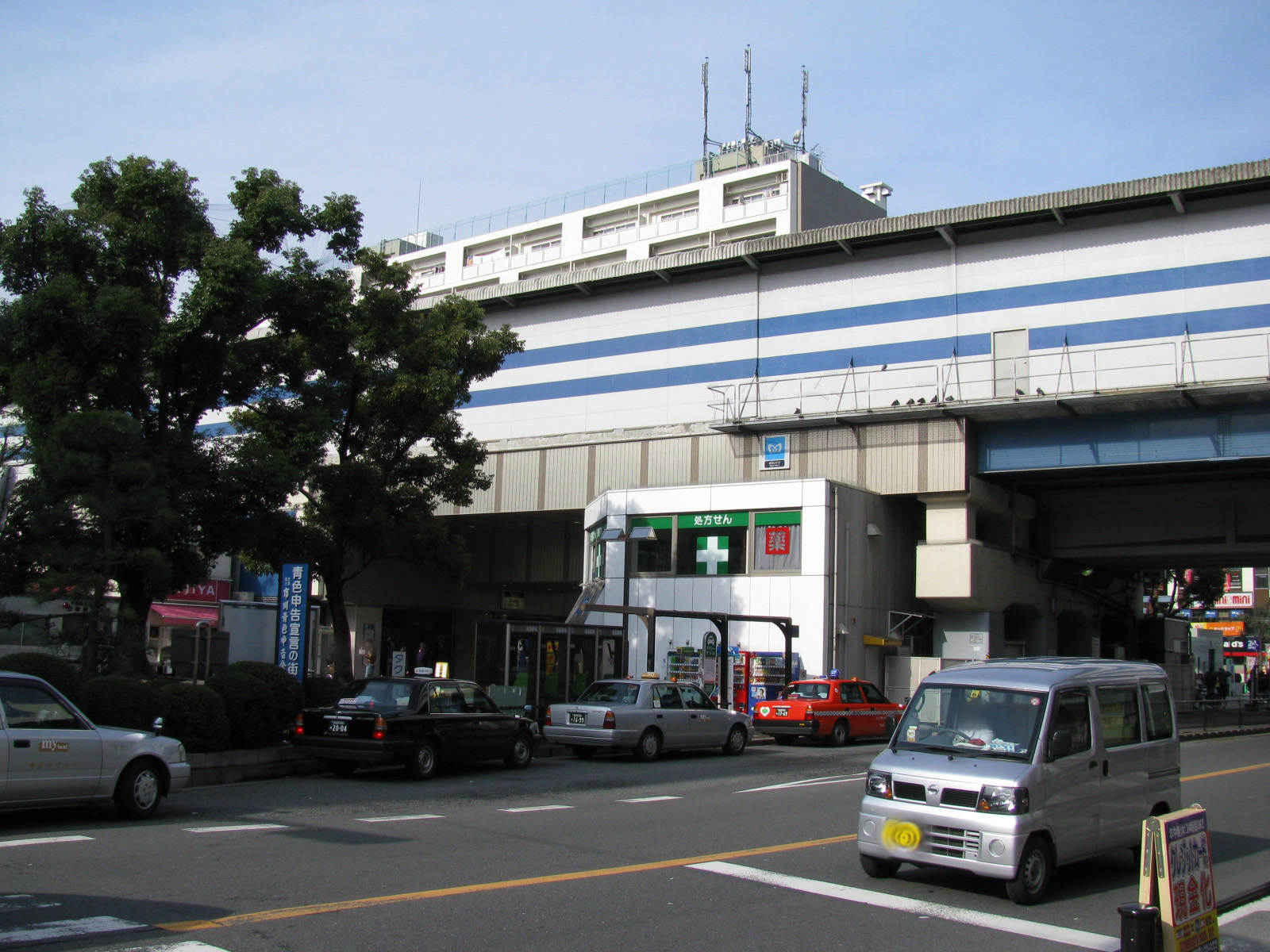 Gyotoku Station on Tokyo Metro Tozai-Line